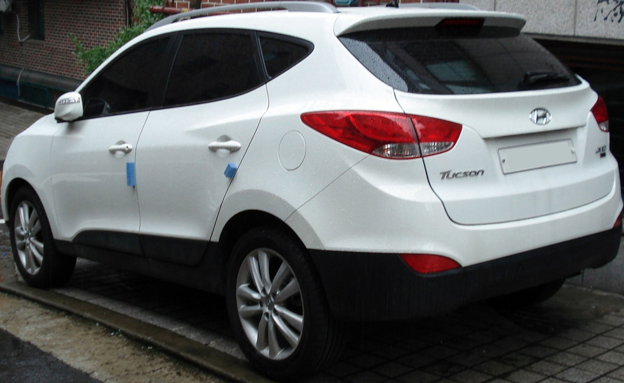 Hyundai Tucson ix